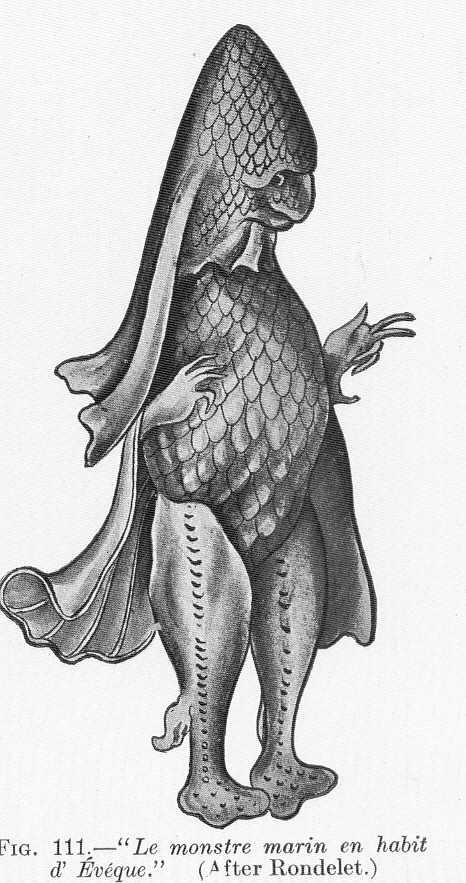 Monstre marin en habit d'Eveque Subject: Sea monsters Tag: People